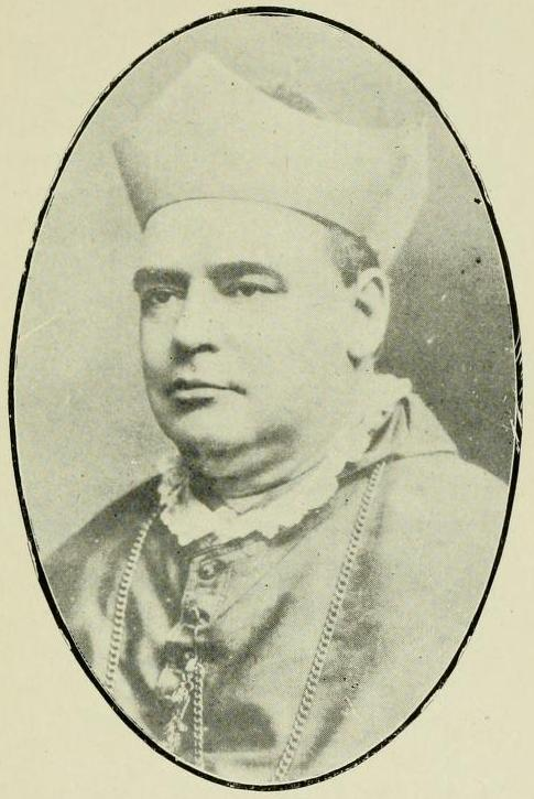 Mariano Antonio Espinosa (1844 - 1923), Archbishop of Buenos Aires, Argentina.